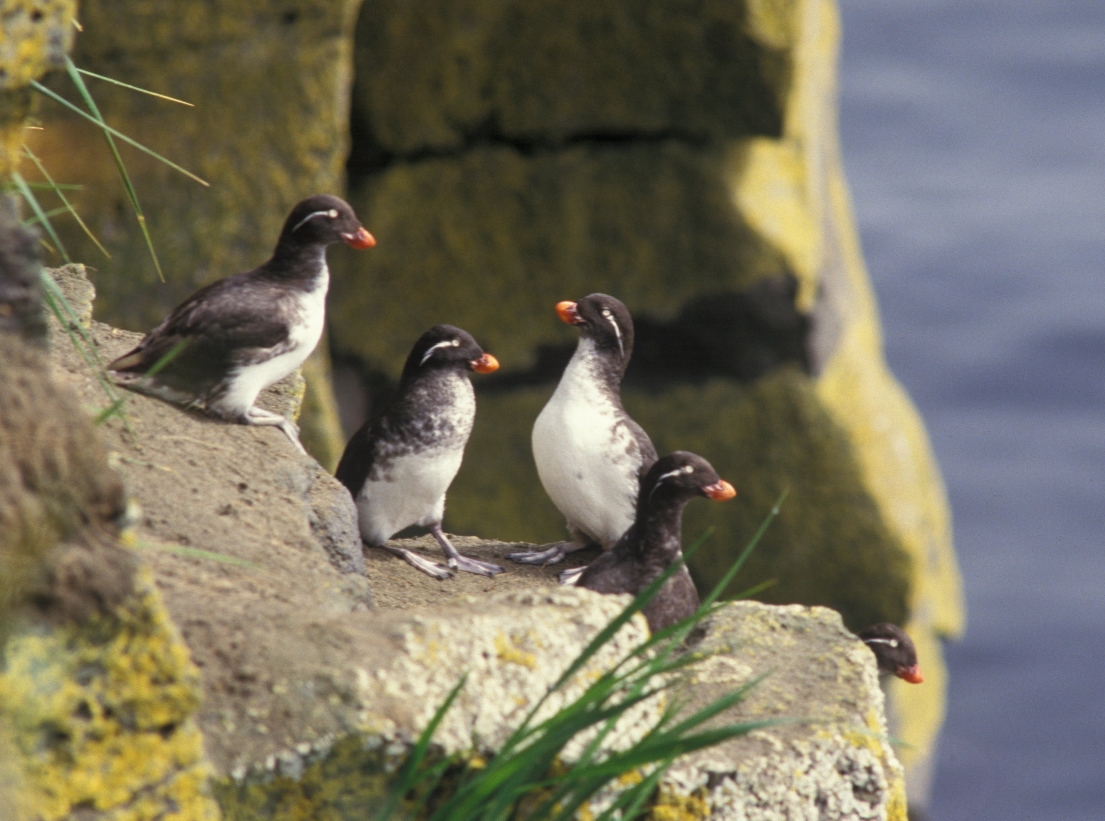 Parakeet auklets. Alaska Pribilof Islands, St. Paul.